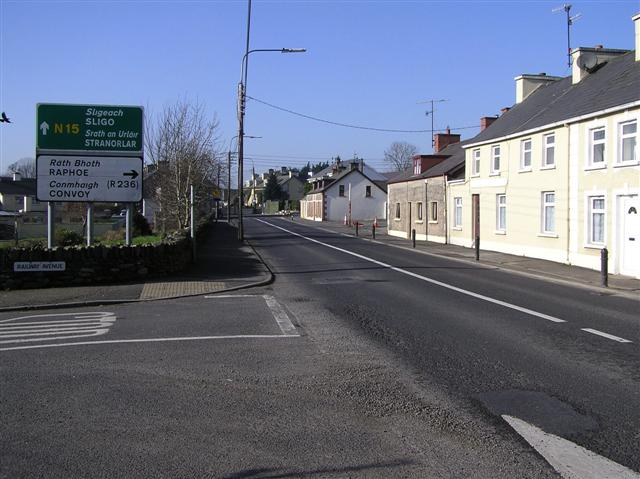 Killygordon, County Donegal Heading west